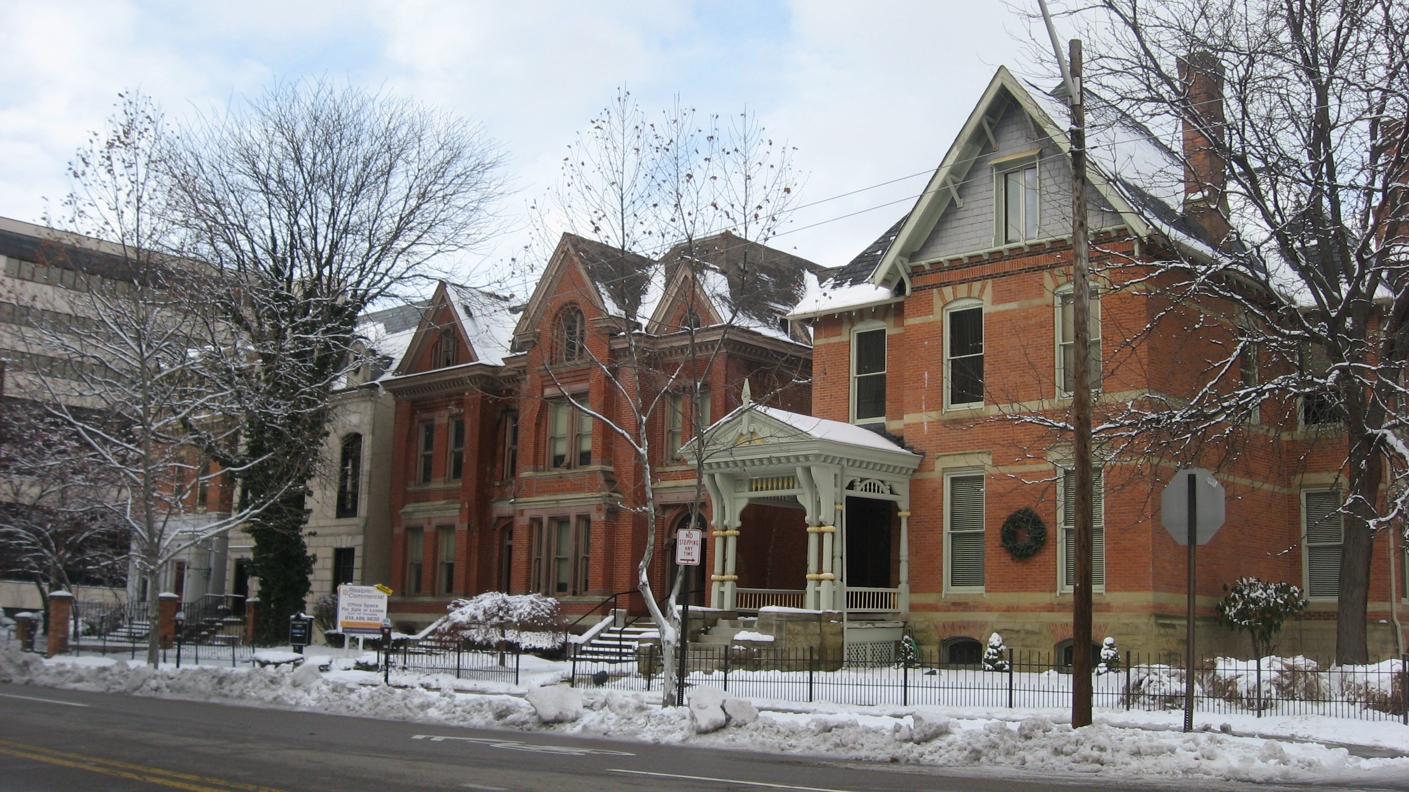 Houses on the northern side of the 400 block of E. Town Street in downtown Columbus, Ohio, United States. This block is part of the East Town Street Historic District, a historic district that is listed on the National Register of Historic Places.